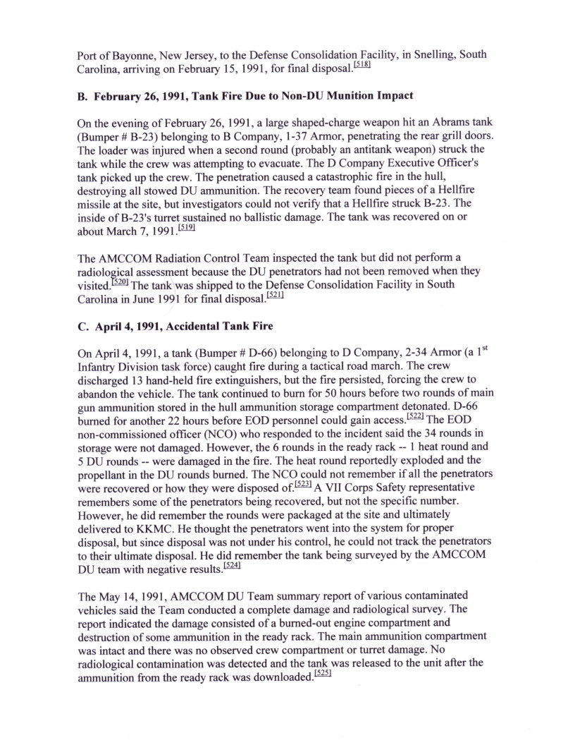 Excerpt from: Rostker, Bernard: Environmental Exposure Report:Depleted Uranium in the Gulf. DoD Publication, 1998.